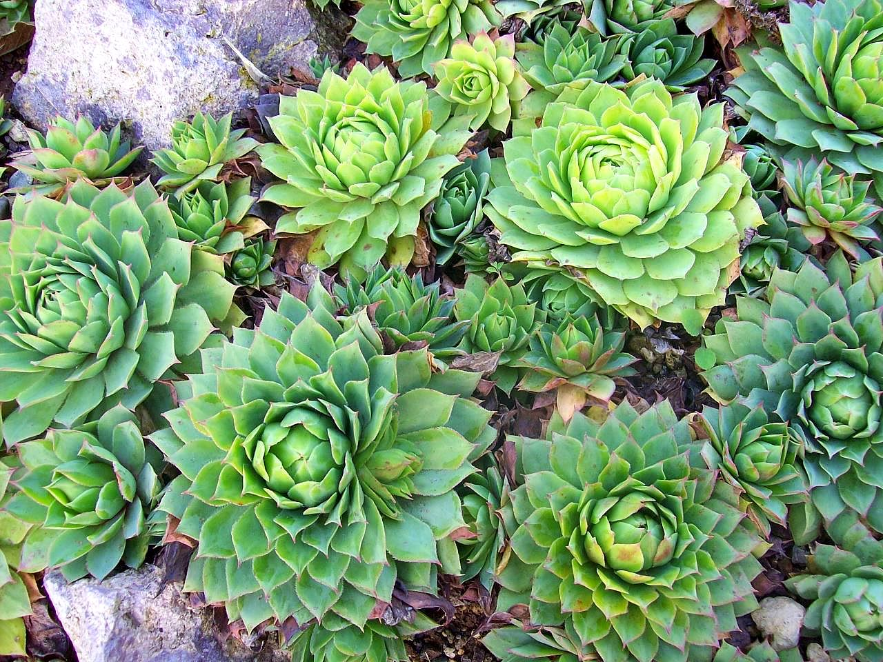 Sempervivum wulfenii (de: Gelbe Hauswurz), origin: Alps